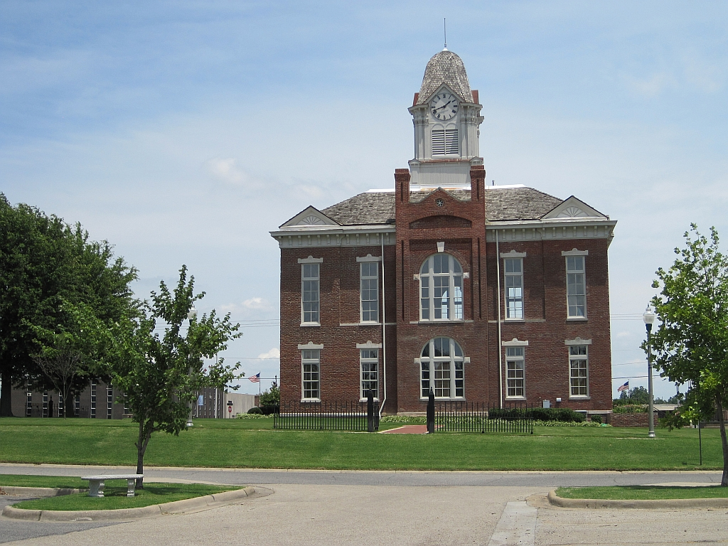 Paragould, Arkansas Old Green County Courthouse